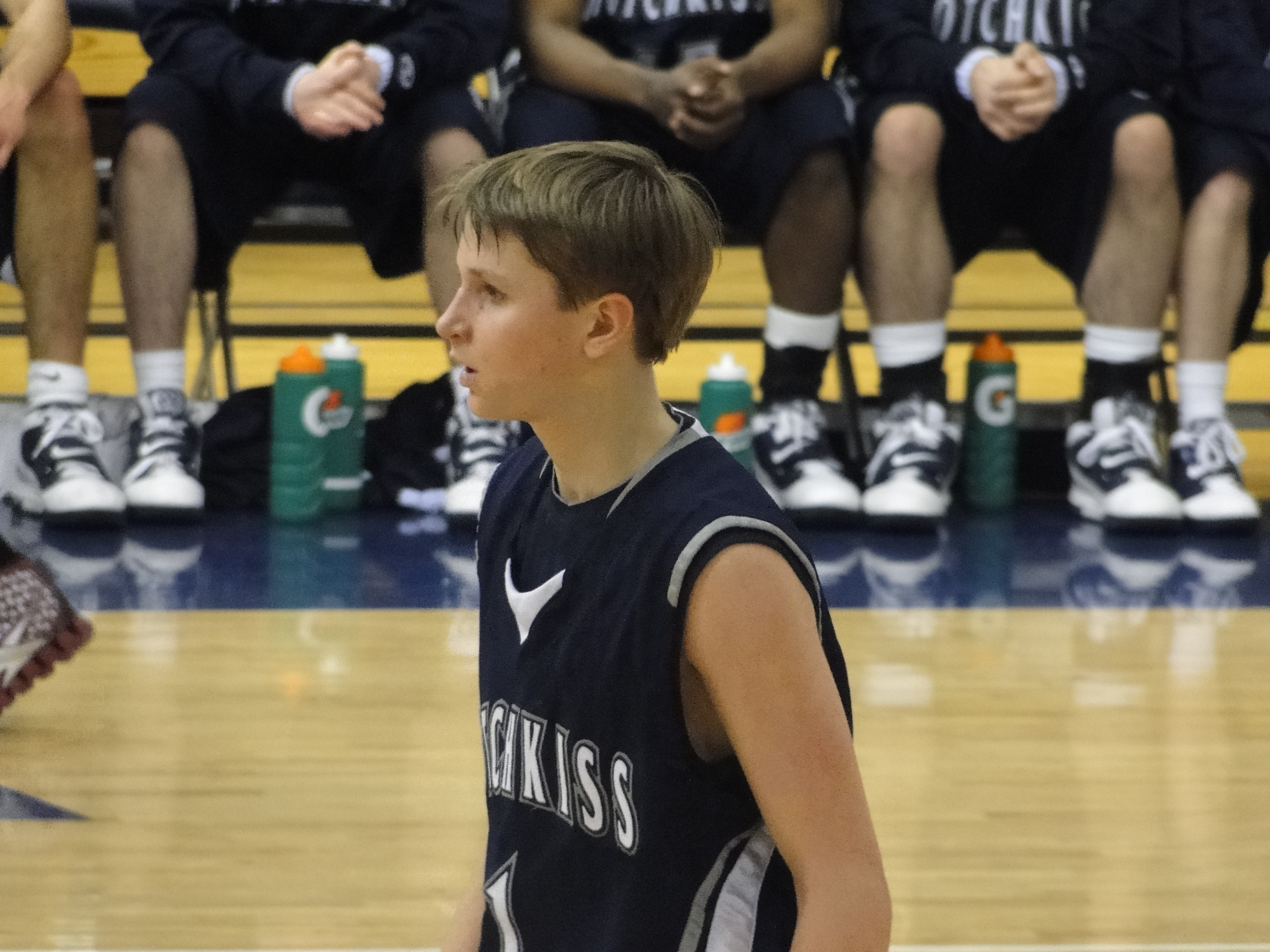 A young Makai Mason